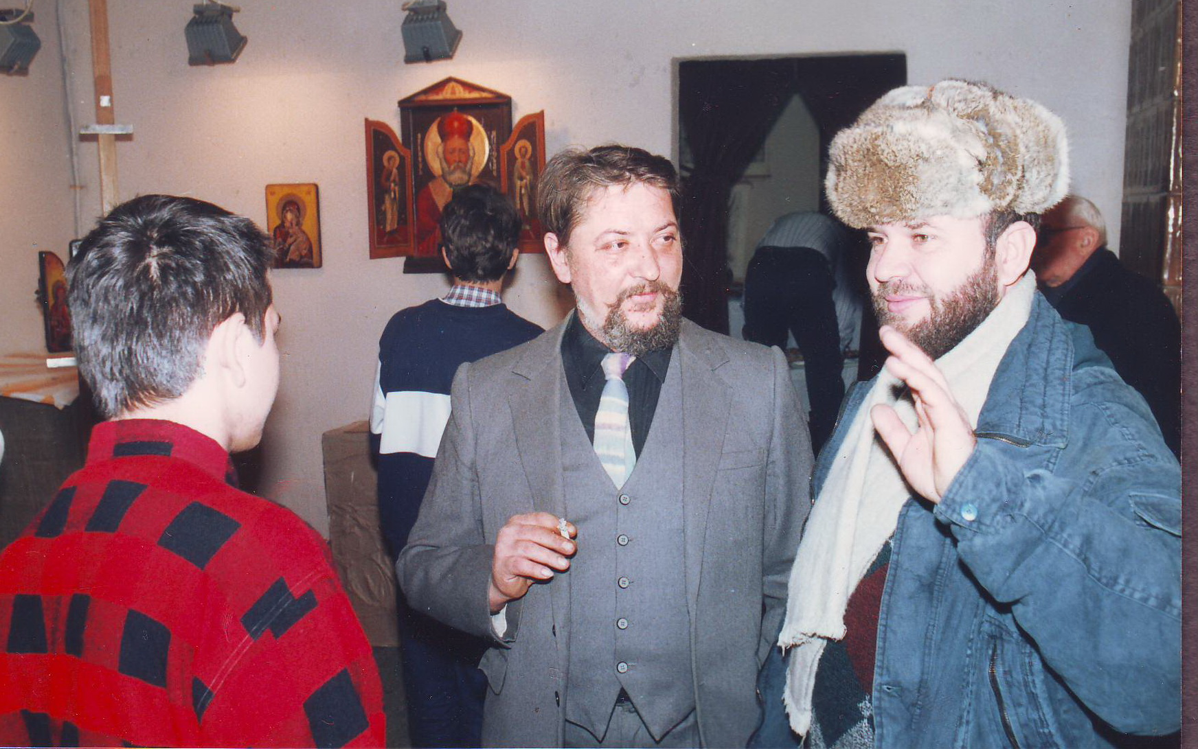 opening